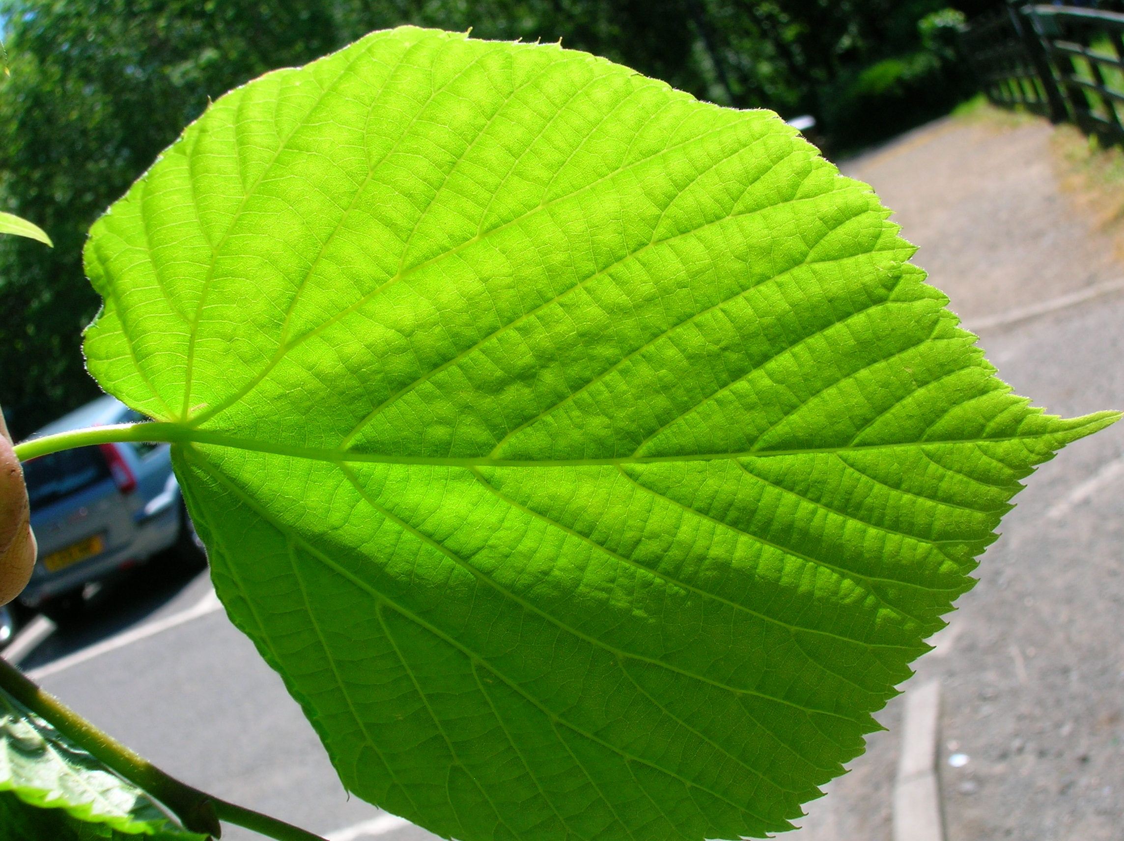 The leaf lower epidermis of Tilia × europaea T. cordata. Eglinton, North Ayrshire, Scotland.